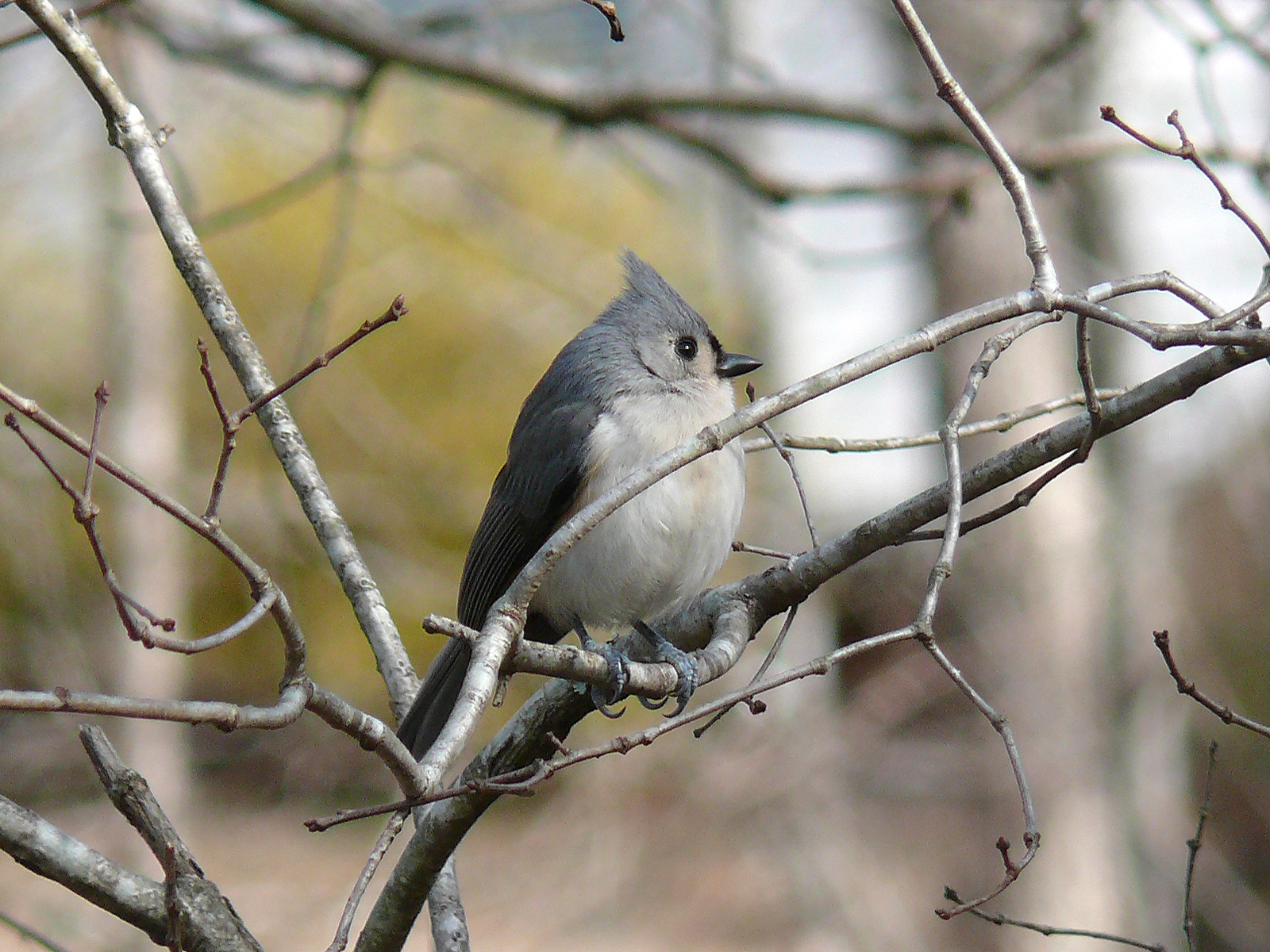 A Tufted Titmouse (Baeolophus bicolor) perched on a tree branch. Photo taken with a Panasonic Lumix DMC-FZ50 in Johnston County, North Carolina, USA.